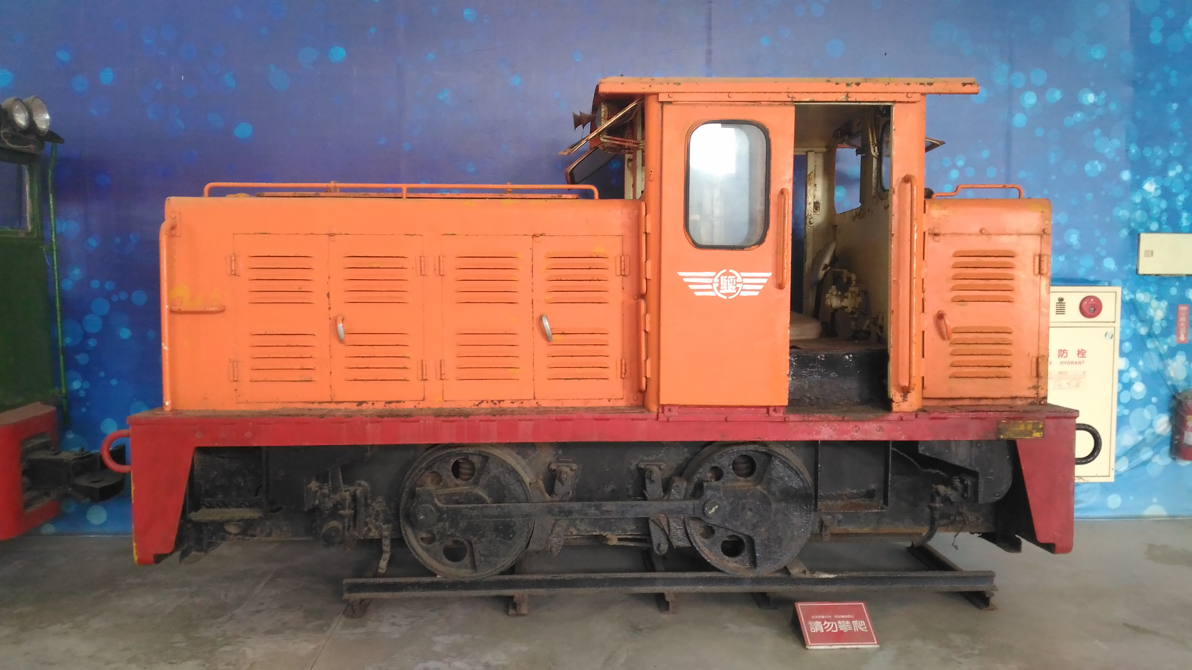 Diesel locomotive by Kyosan Kogyo(協三工業) displayed at Cigu Salt Pan(七股鹽場)